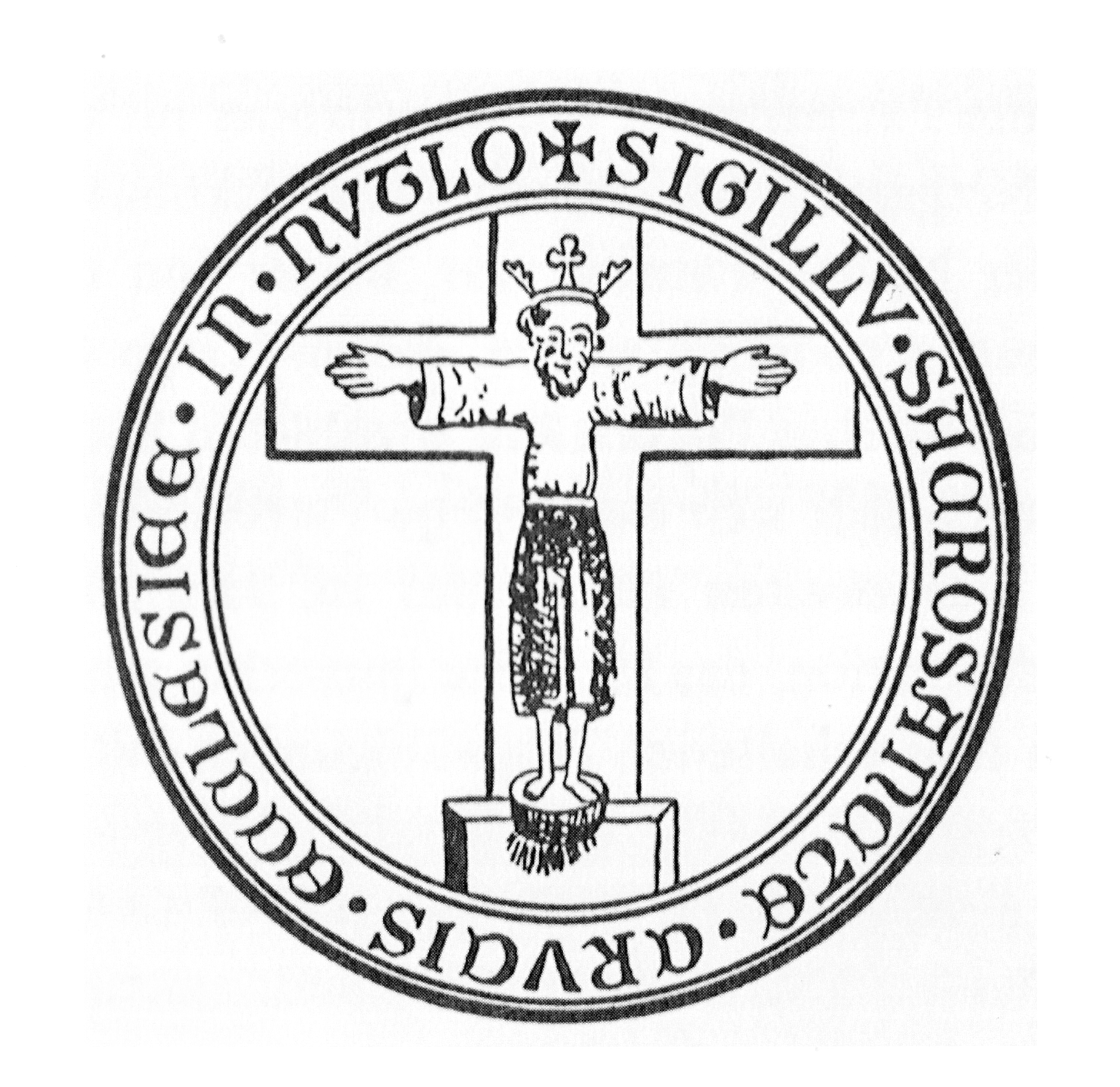 Siegel der Kirche St. Hulpe in Nutlo bei Diepholz. Umzeichnung.